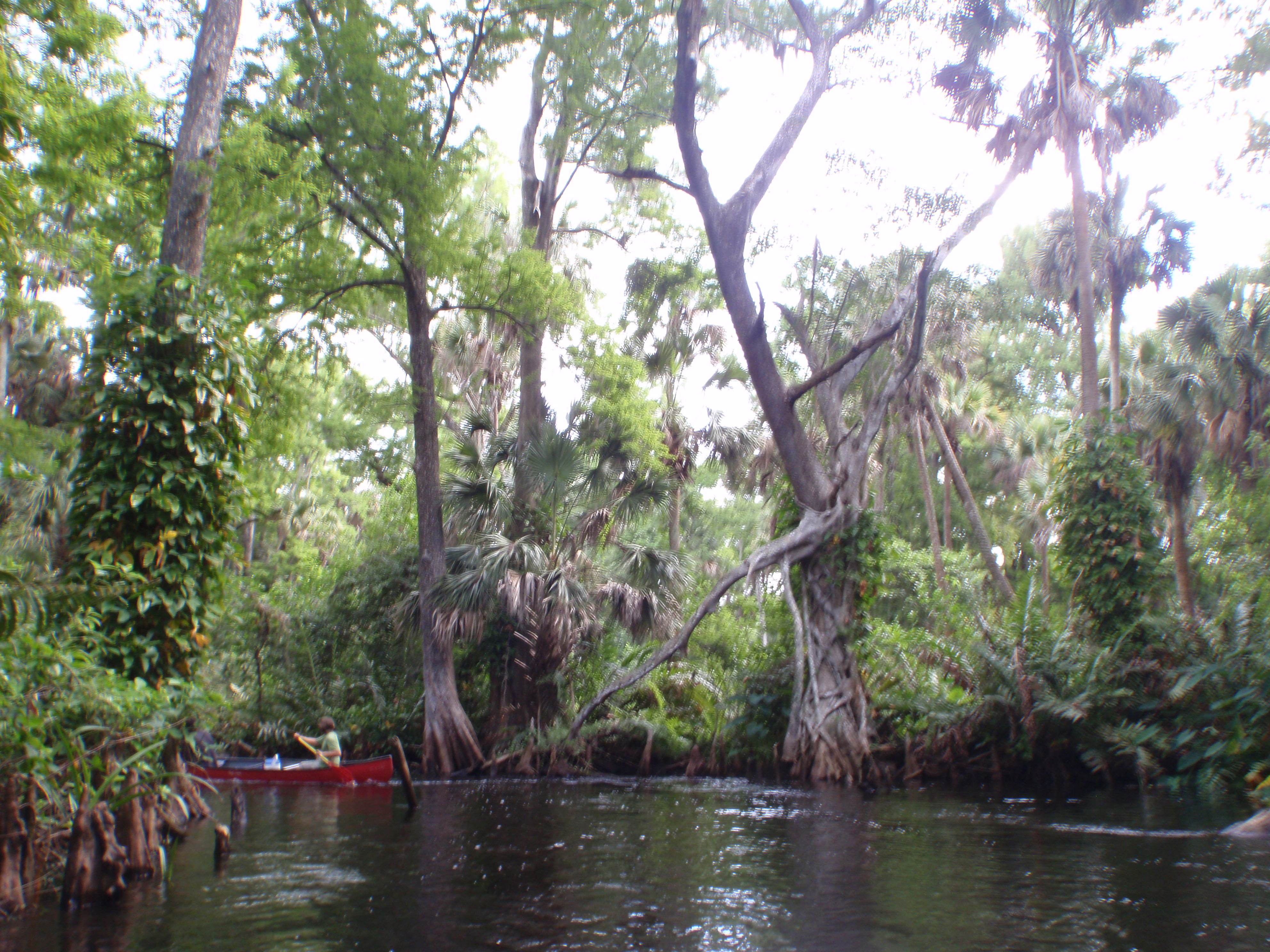 A canoe in the Loxahatchee River, Florida.